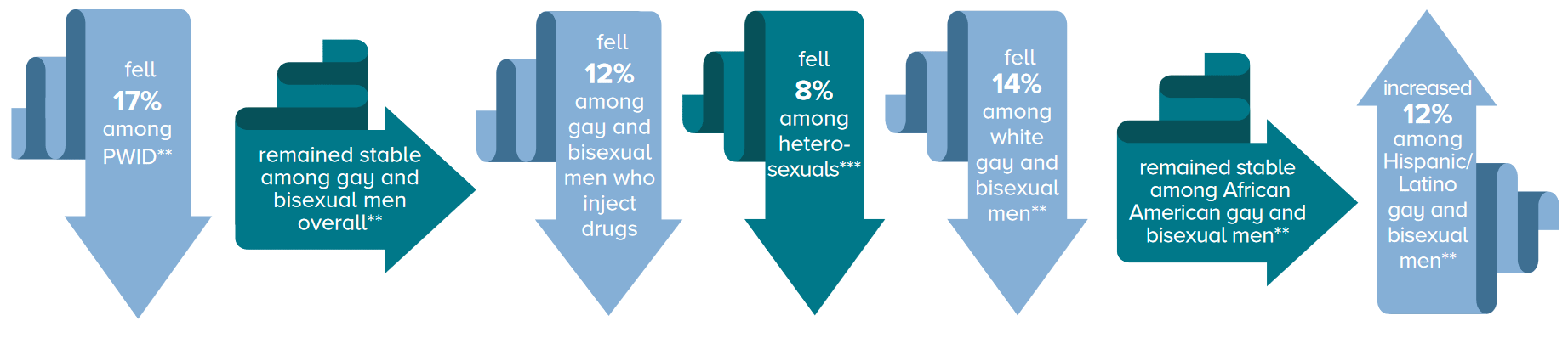 Flow chart displaying trends in HIV diagnosis rates between 2012-2016 published by the Centers for Disease Control in February of 2019.